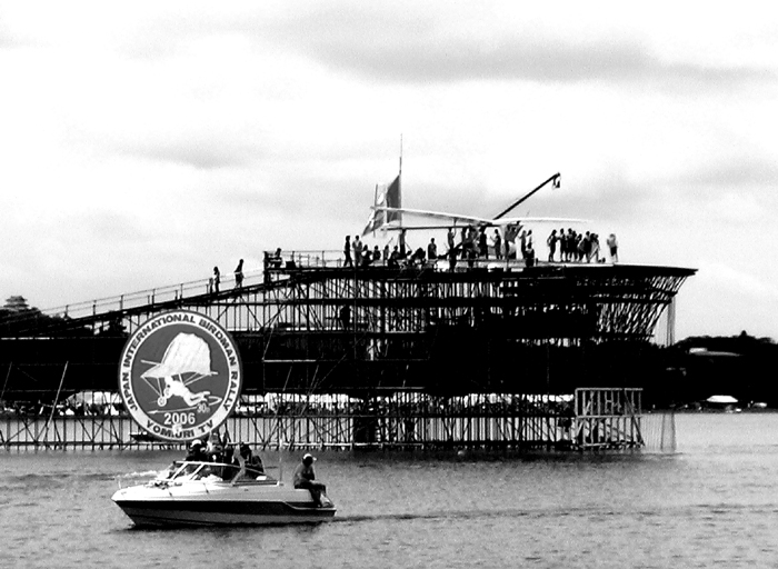 Japan International Birdman Rally 2006